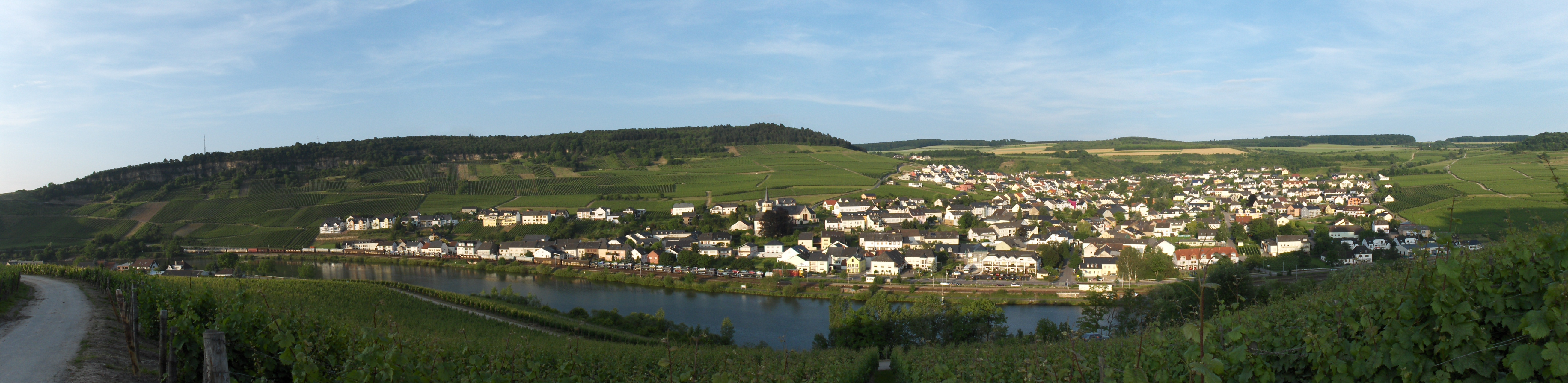 Weinort Nittel an der Mosel